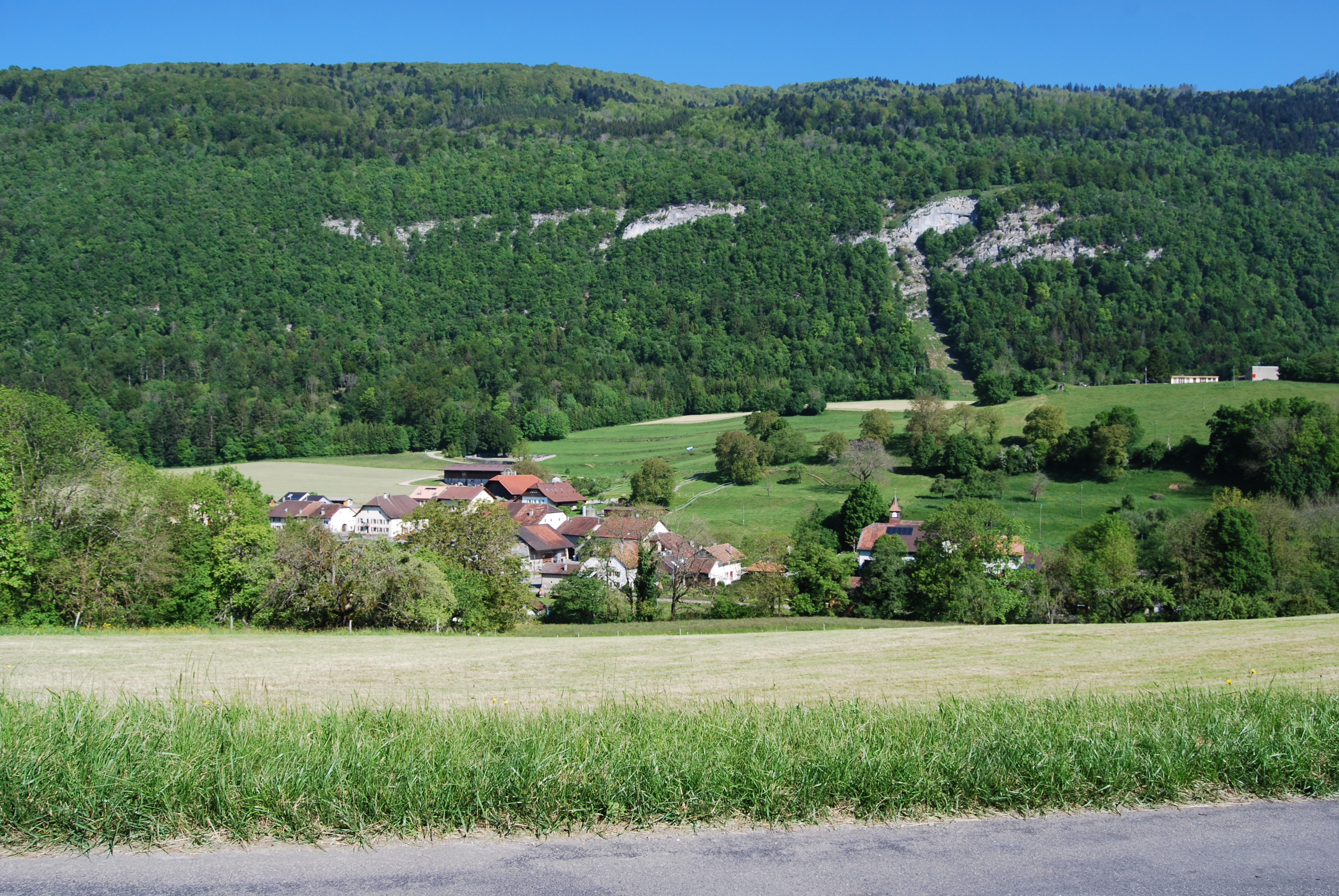 Vugelles-La Mothe, canton of Vaud, SwitzerlandEsperanto: Vugelles-La Mothe, Kantono Vaŭdo, Svislando